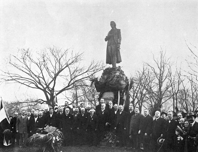 Meeting of a Swabian association by a statue of Friedrich Schiller in Lincoln Park in Chicago, Illinois, United States.